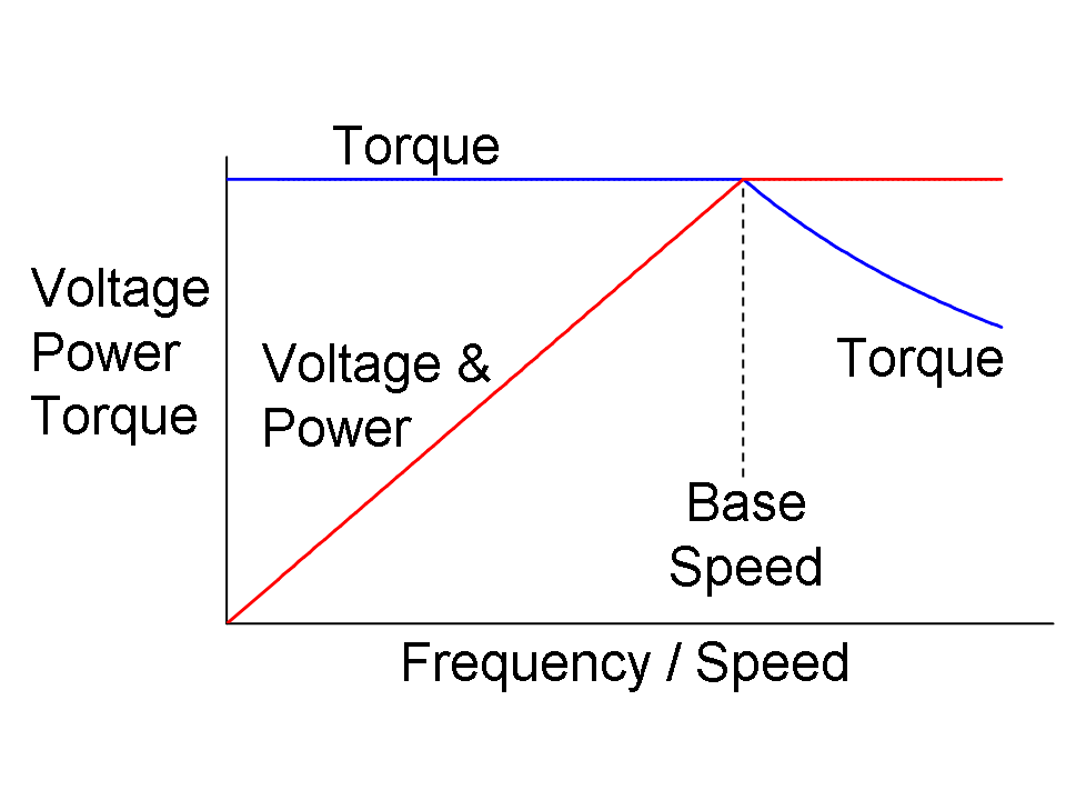 C J Cowie